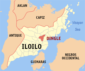 Map of Iloilo showing the location of Dingle